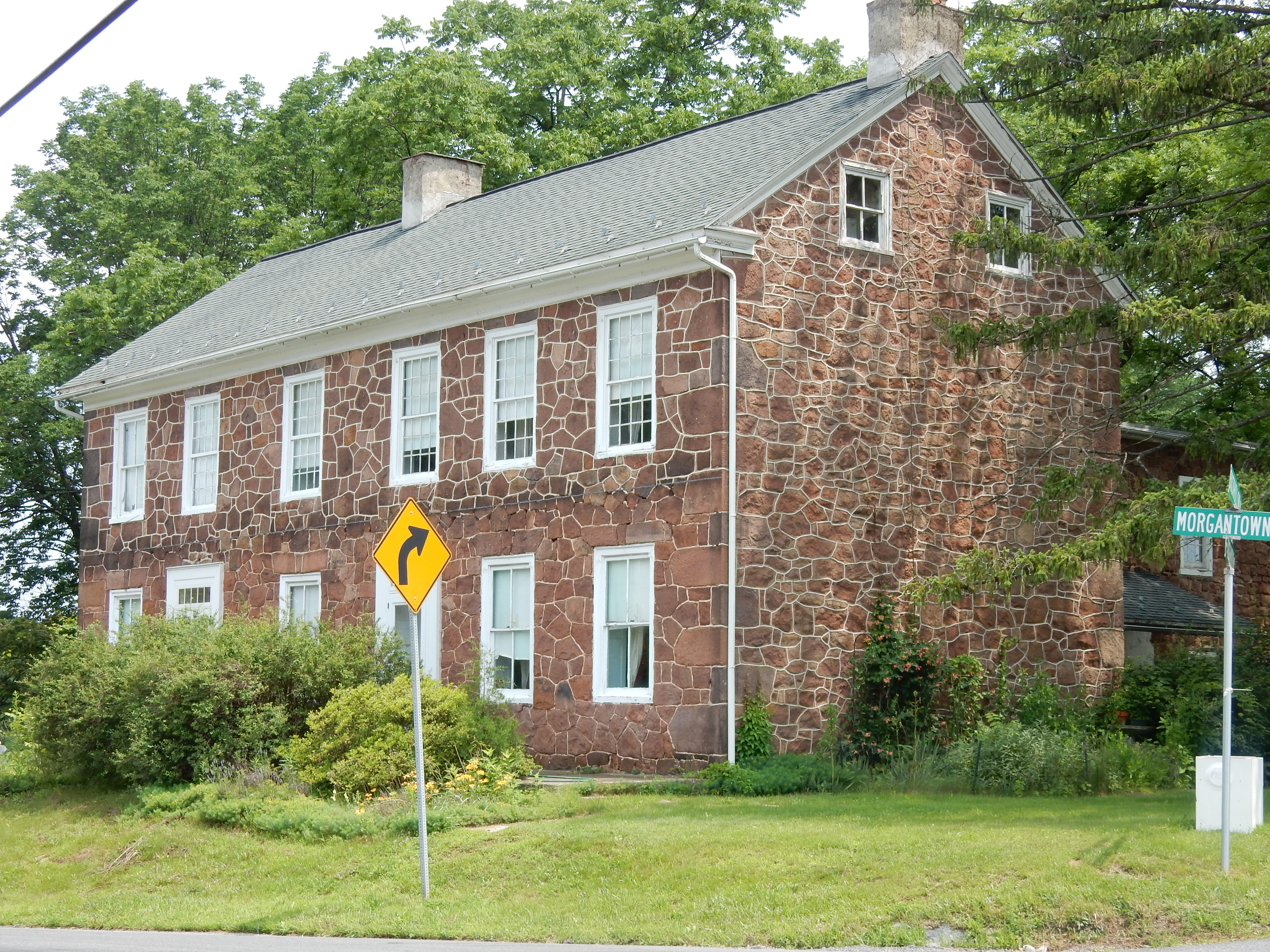 Residence on Morganville Rd., corner of Buck Hollow Rd. Plowville, Robeson Township, Berks County, Pennsylvania.